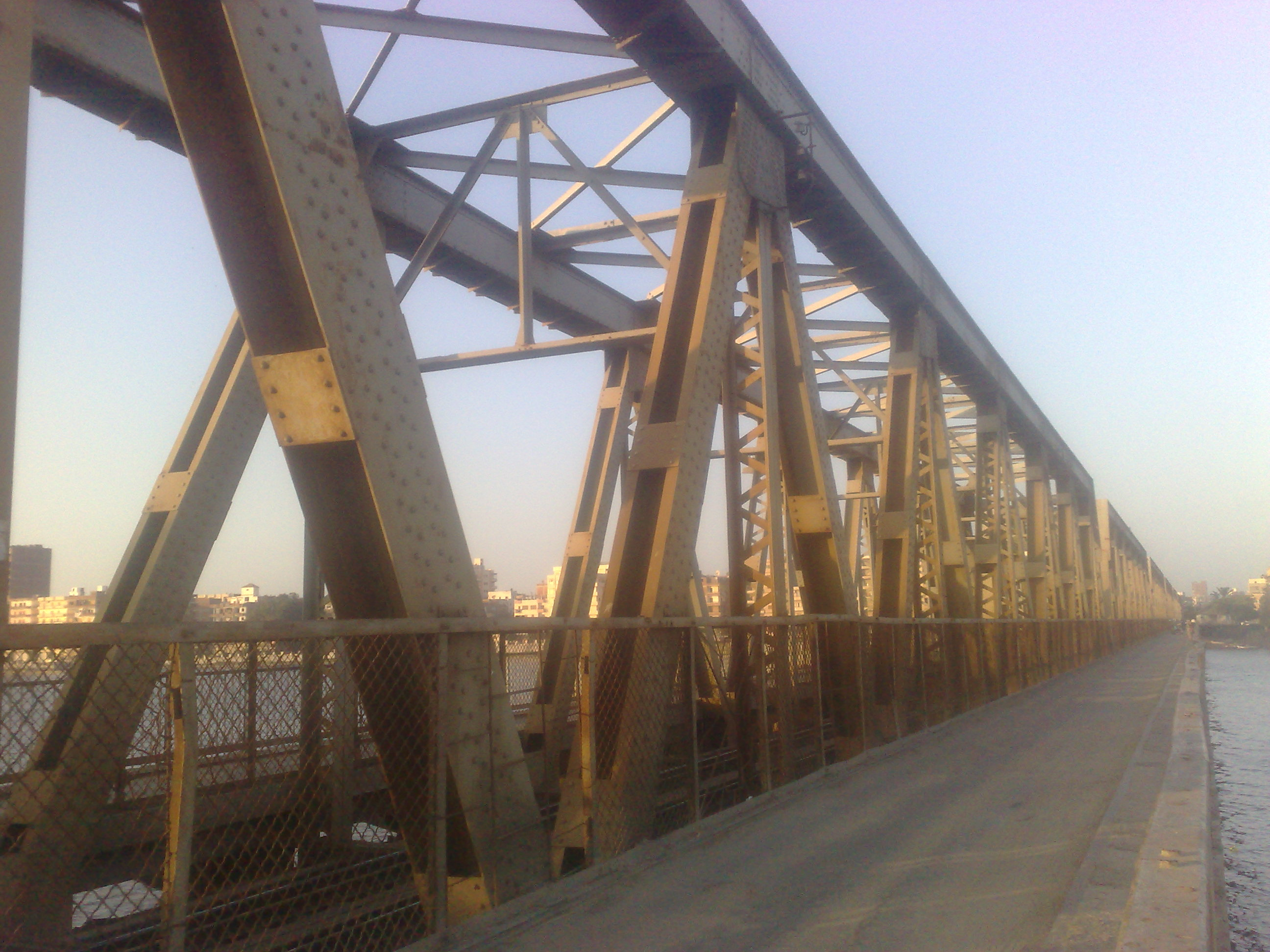 Desouk Railway bridge